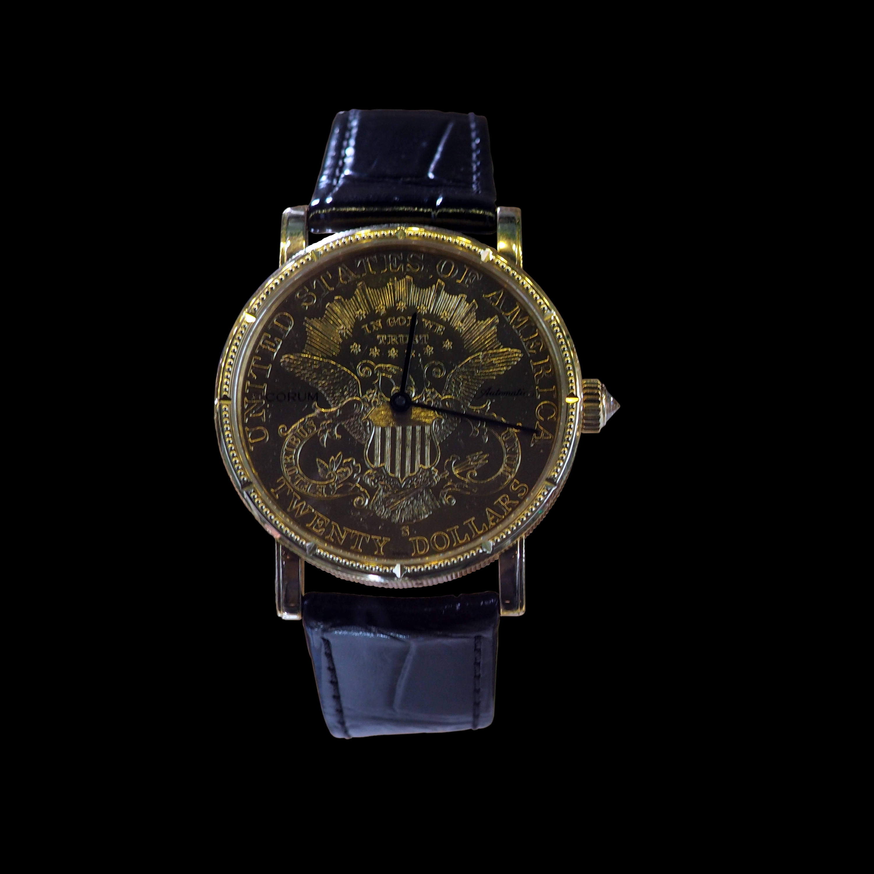 Corum Coin watch, Ref nr 082.355.56